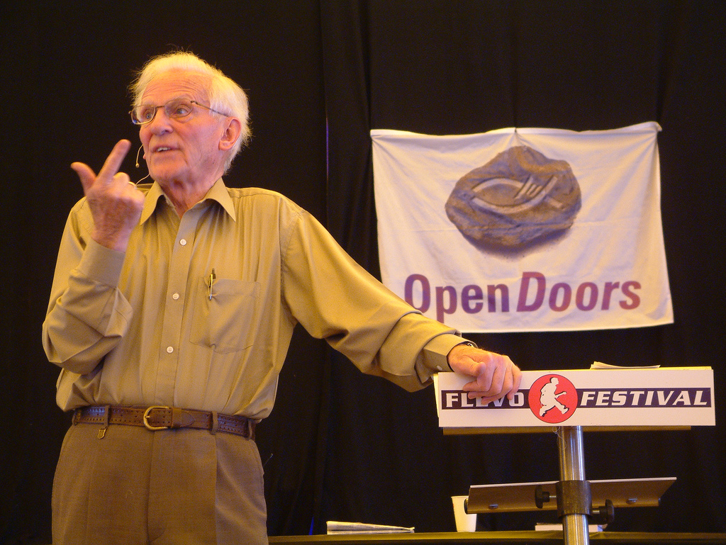 Picture is taken of Andrew van der Bijl during a lecture at the Flevo Festival